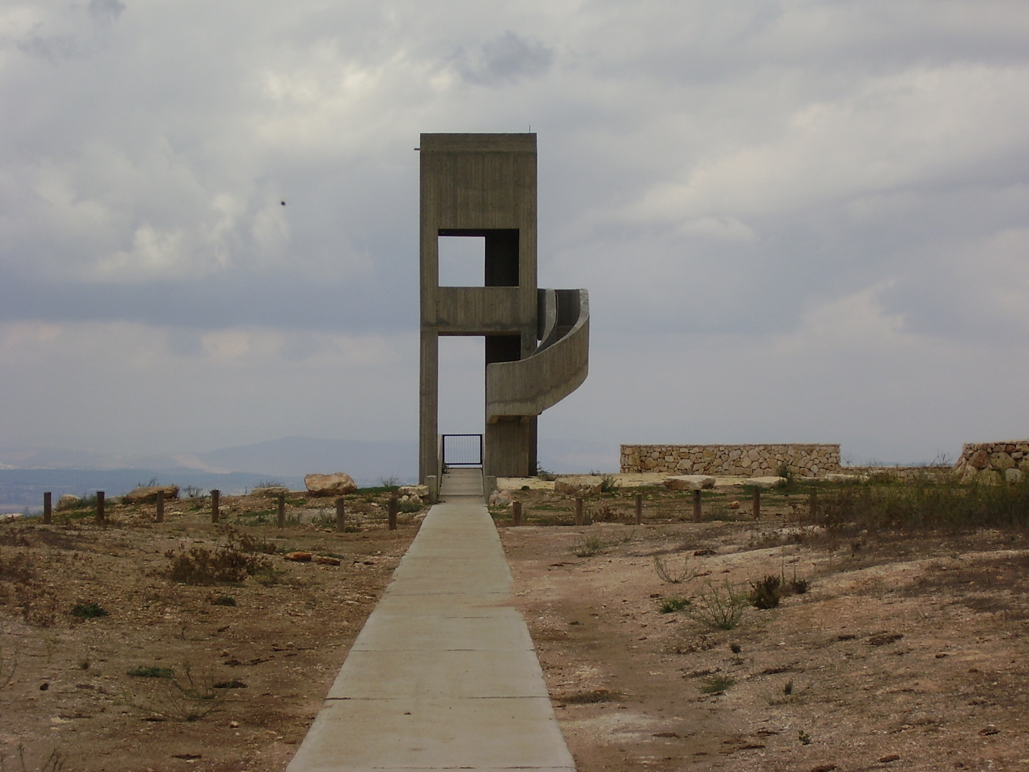 Kibbutzim Memorial